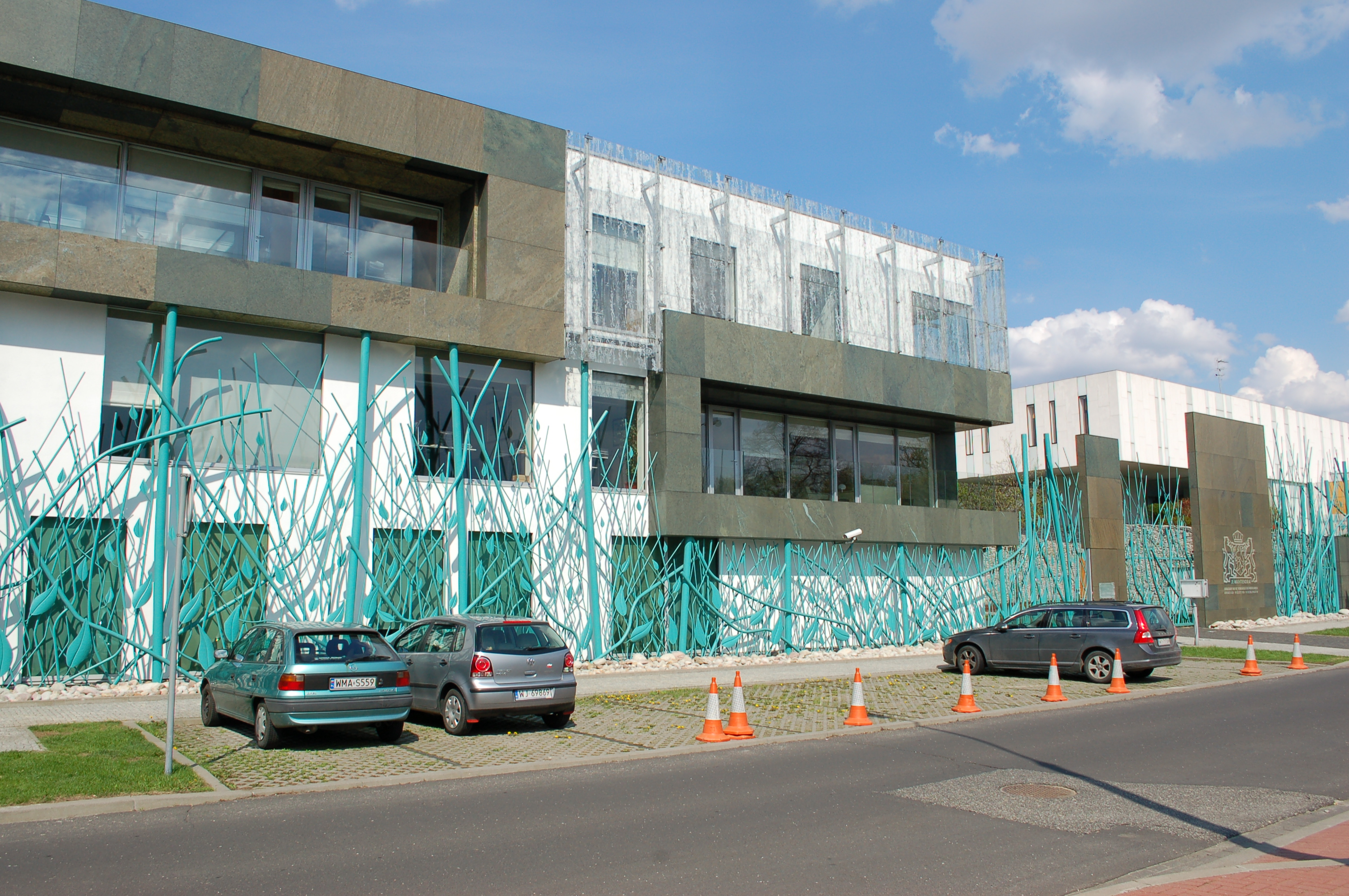 Kawalerii Street in Warsaw